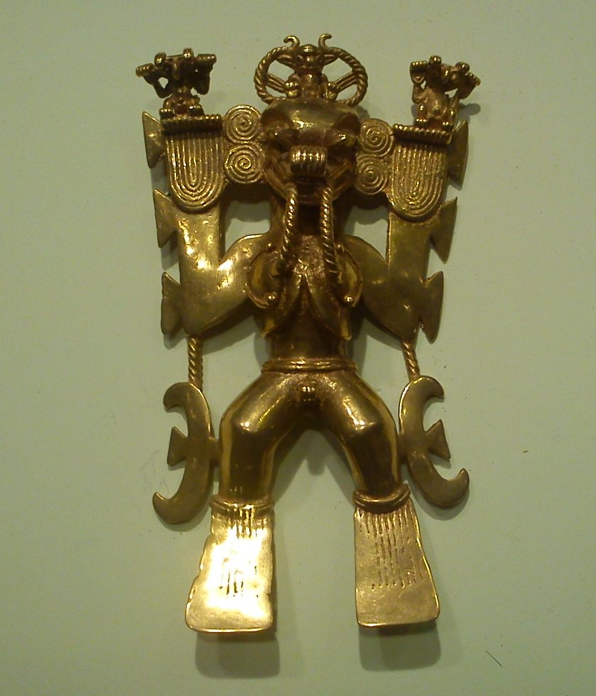 Pendant of gold shaped like a shaman, from South Pacific of Costa Rica (700-1500 A.D). Museo del Oro, San Jose, Costa Rica.